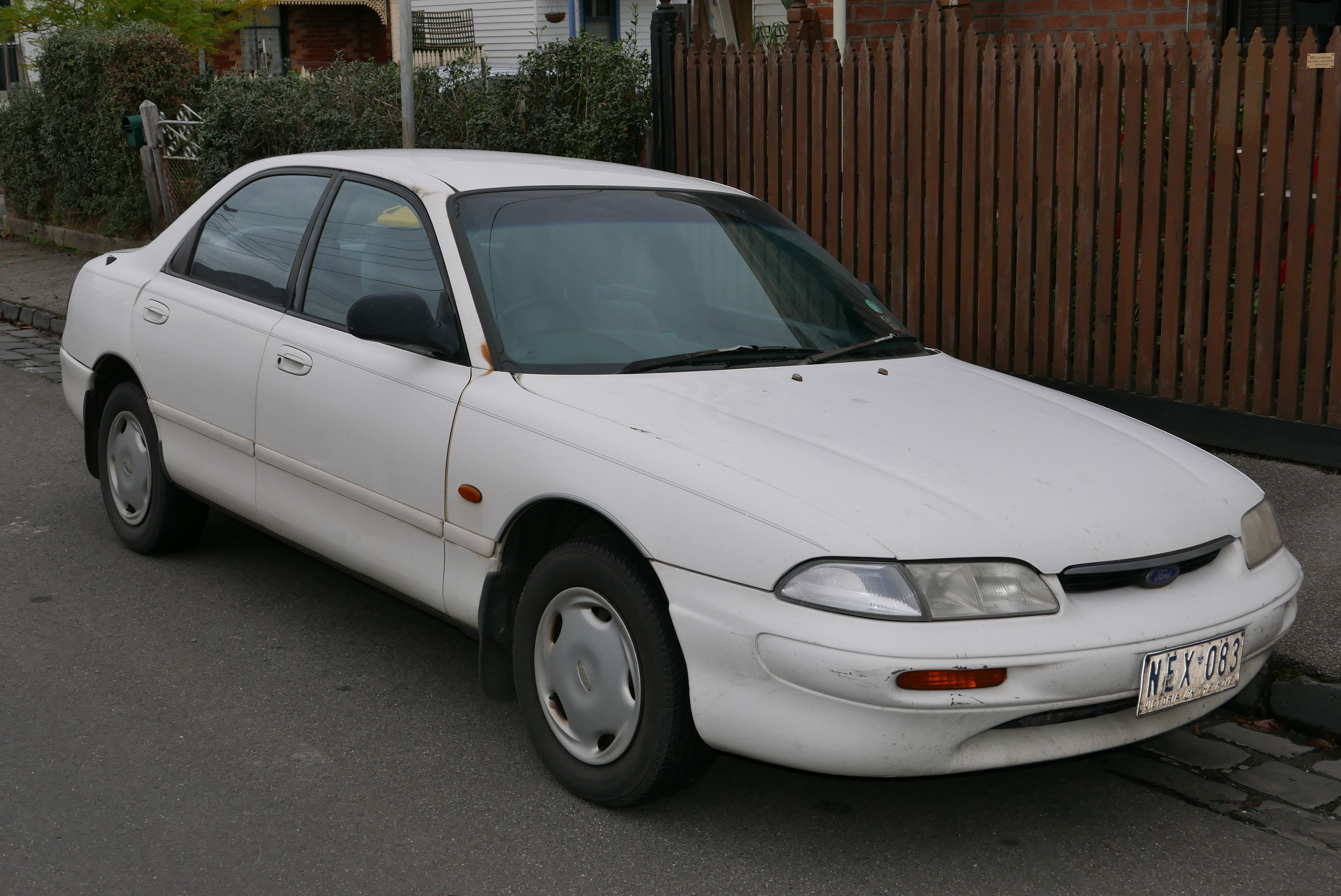 1995 Ford Telstar (AY) GLX sedan. Photographed in Fitzroy North, Victoria, Australia. Vehicle registration enquiry results Jurisdiction Victoria Registration NEX083 Chassis code JC0AAASHVNSC67210 Engine code 799498 Compliance date 1995-01 Year of manufacture 1995